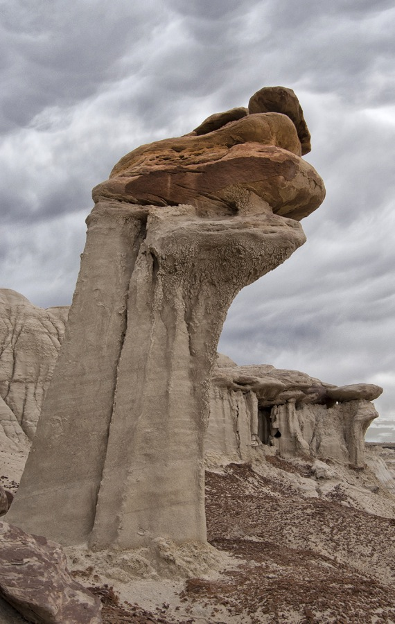 Giant Hoodoo rock formation; at Ah-shi-sle-pah Wilderness Area — in northwest New Mexico.